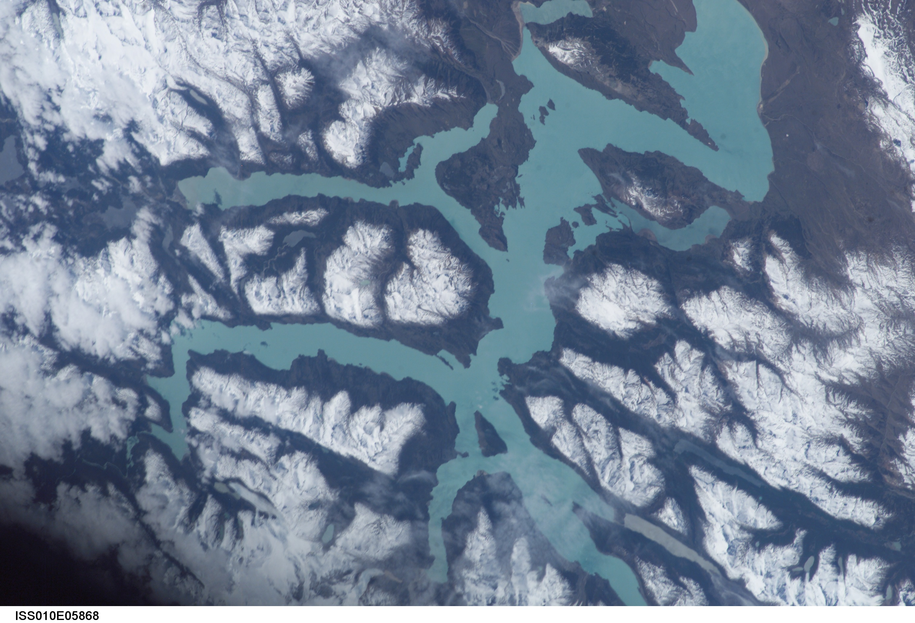 O'Higgins/San Martín Lake, between the Aysén Region (Chile) and the Santa Cruz Province (Argentina).